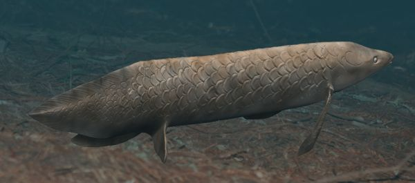 Ceratodus sp., digital.